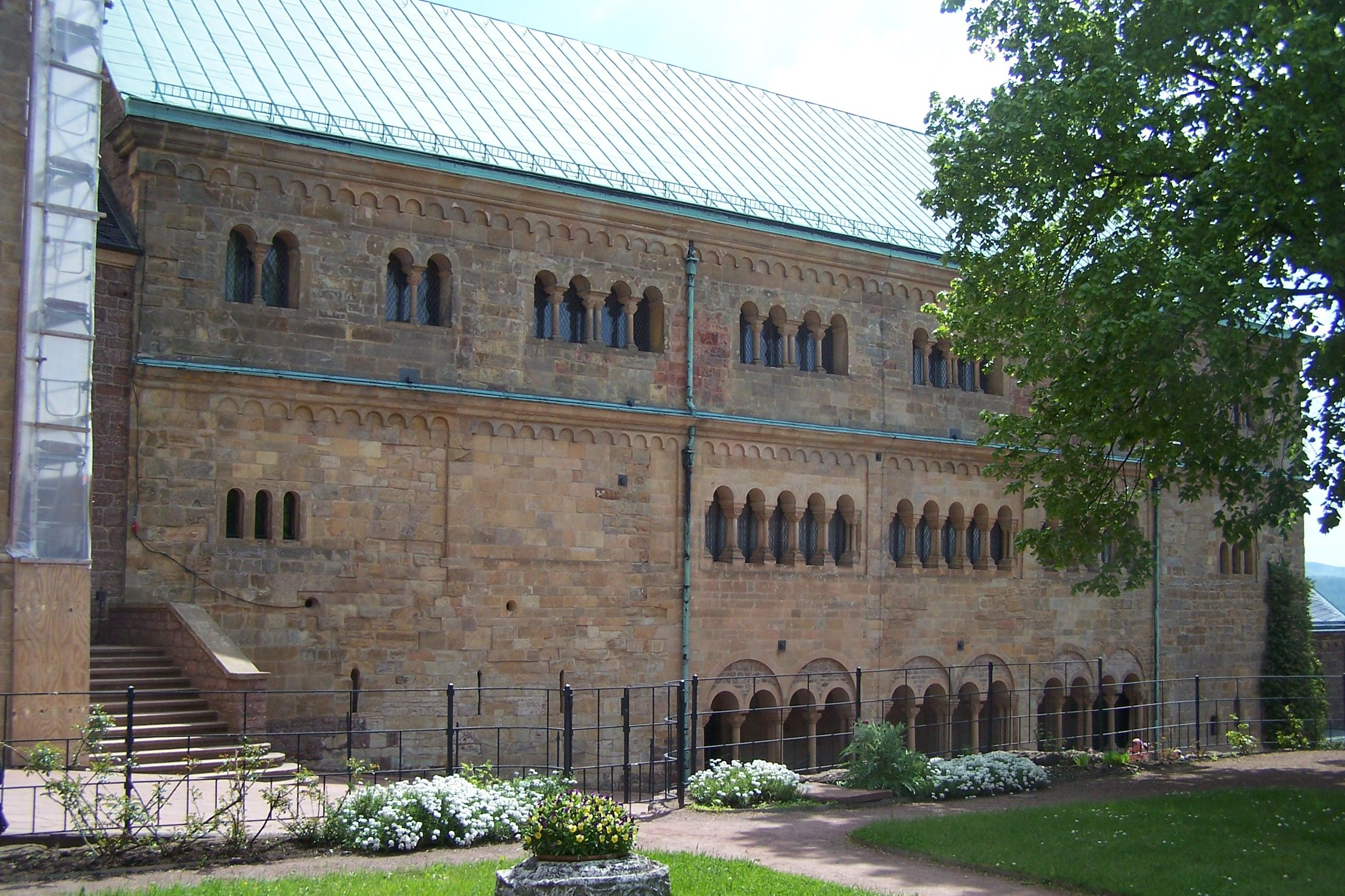 Palas at Wartburg castle.